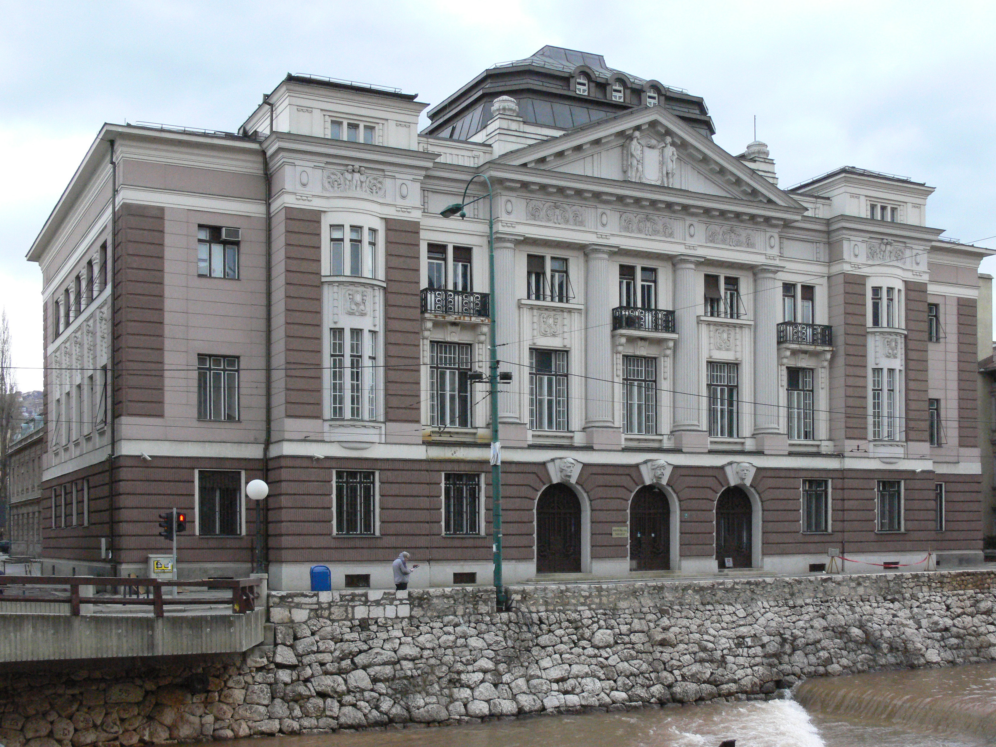 The building of BOR bank in Sarajevo